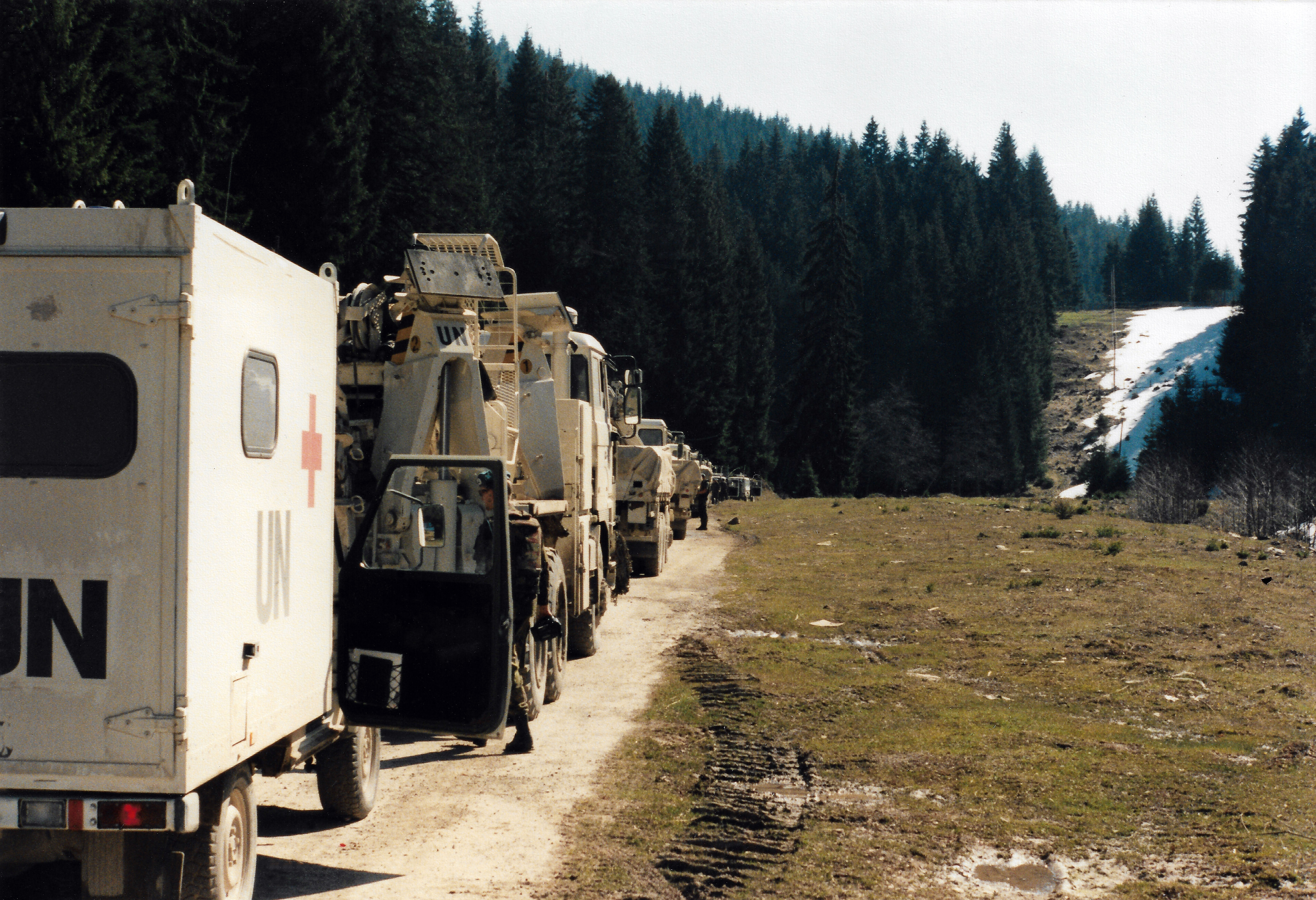 UNPROFOR Dutch Transportbatallion en route in Bosnia-Herzegovina. Route Triangel April 1995. Pause Аҧсшәа: UNPROFOR 1 NL/B Transportbatallion Bosnia-Herzegovina Nederlands Route Triangel April 1995